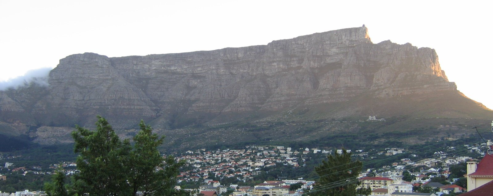 Table Mountain, Cape Town, South Africa. Taken from the Signal Hill side on 2004-12-16 19:39:05 (SAST).